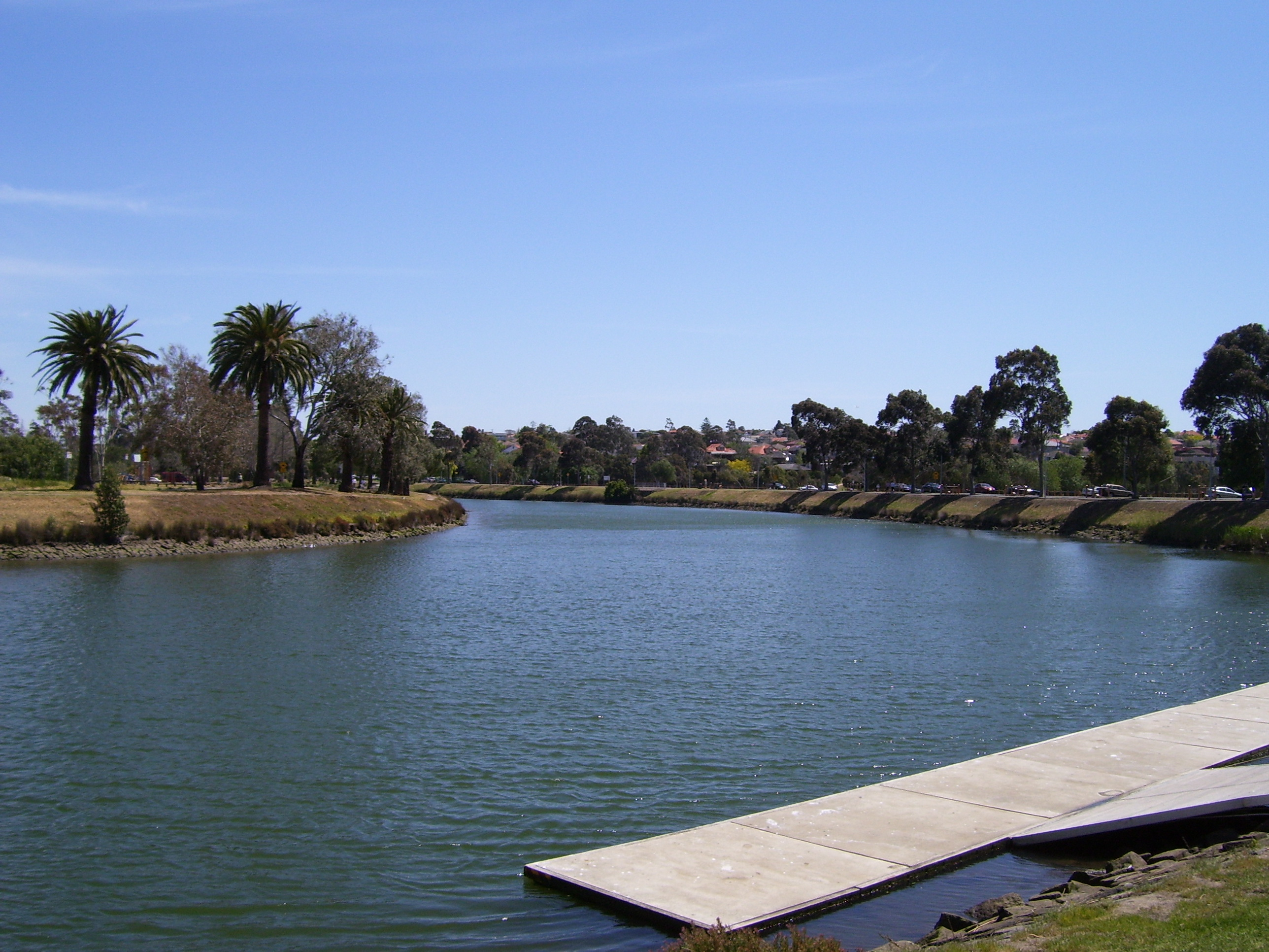 The Maribyrnong river near the suburb of Aberfeldie in Melbourne Australia